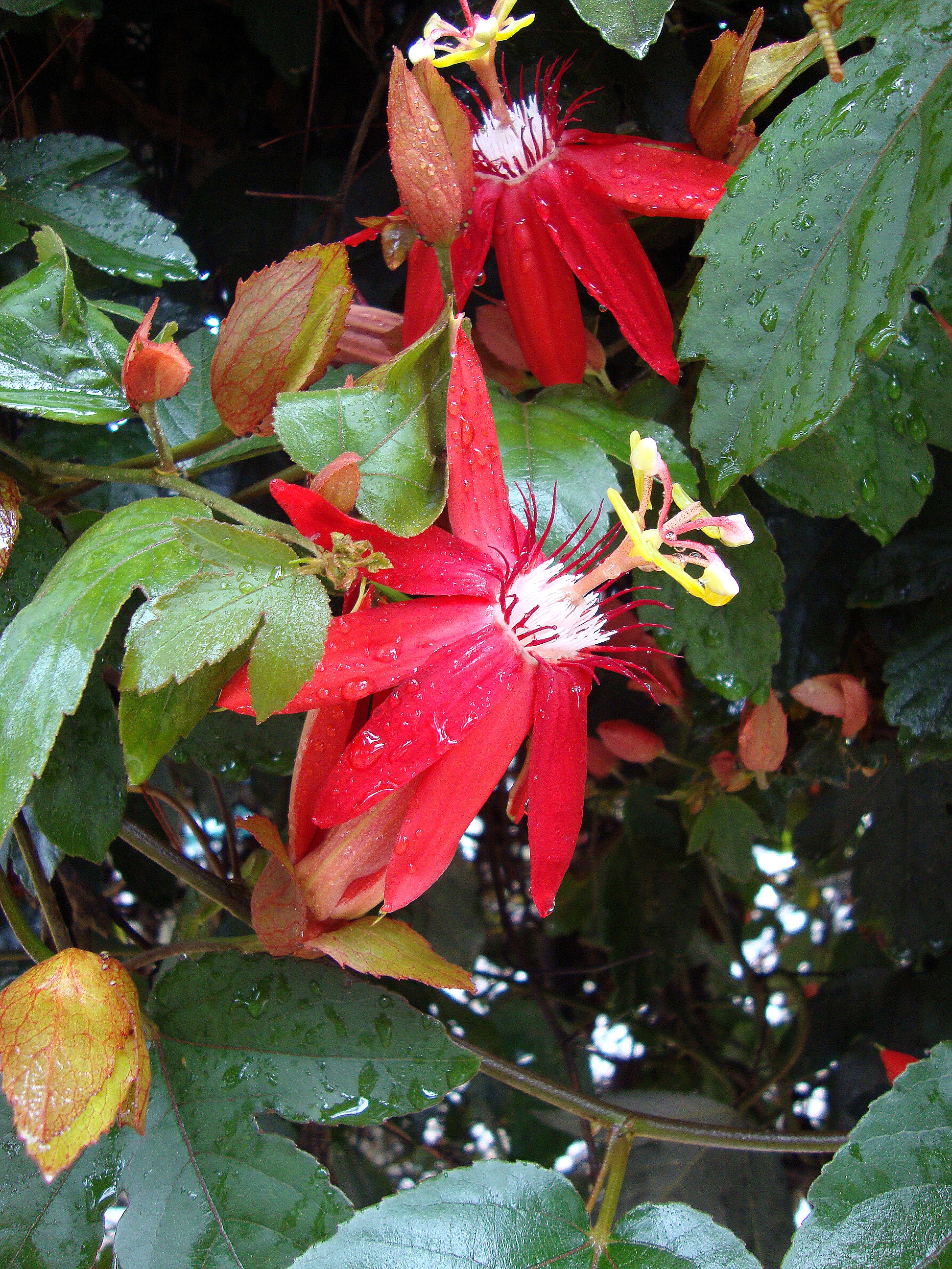 Passiflora vitifolia Kunth, 1817